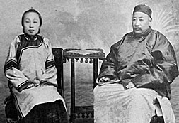 Nicholas Tifontay and his wife Yang Tze Ung.